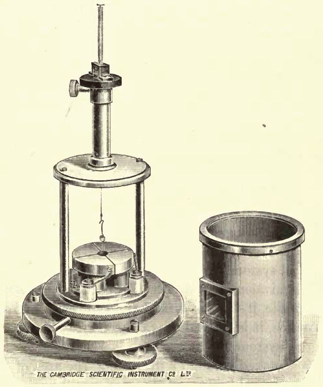 In the form of electrometer shown, the design of which is due to Dr F. Dolezalek, the suspension is a very fine quartz fibre, and is made into a conductor by coating it with a trace of a hygroscopic substance like calcium chloride, which always remains moist. The needle is of very light silvered paper, and the sensitiveness is so great that the needle need only be kept at a potential of 50 to 200 volts. A constant potential can be secured by connecting the fibre with one pole of a battery or dry pile, the other pole of which is put to earth.